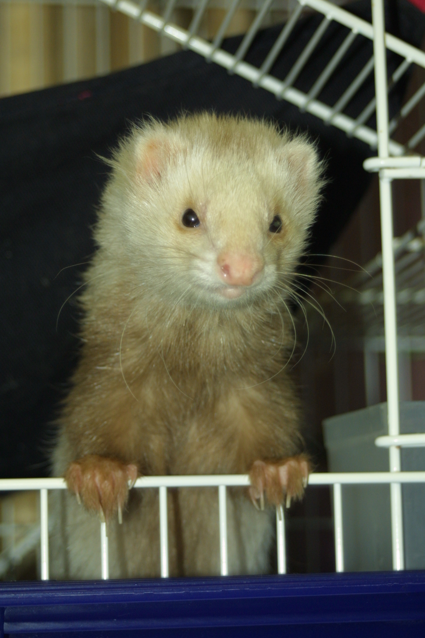 An Angora Ferret “Ranko” owned by the author